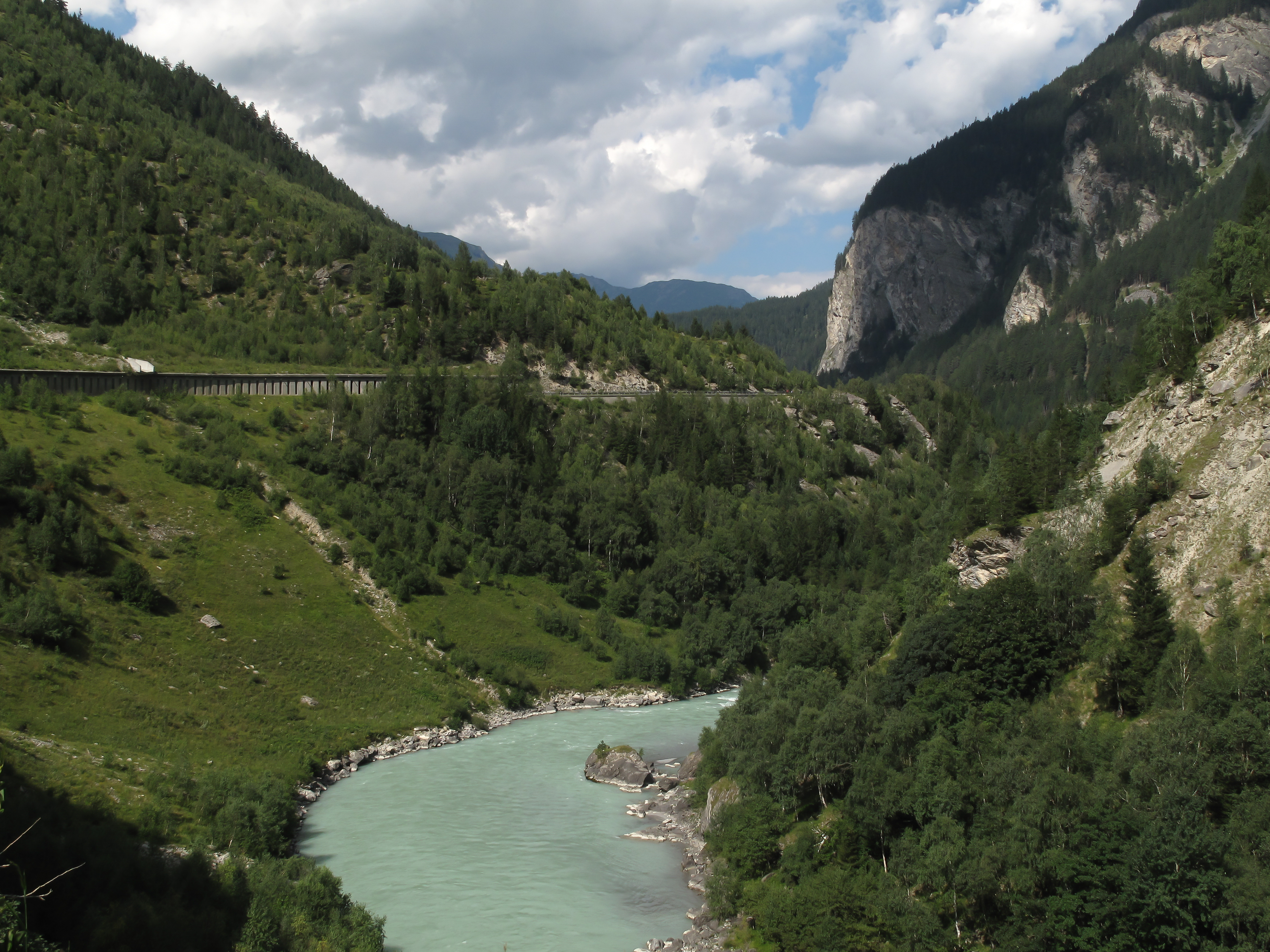 between Martina and Pfunds, border river Switserland-Austria